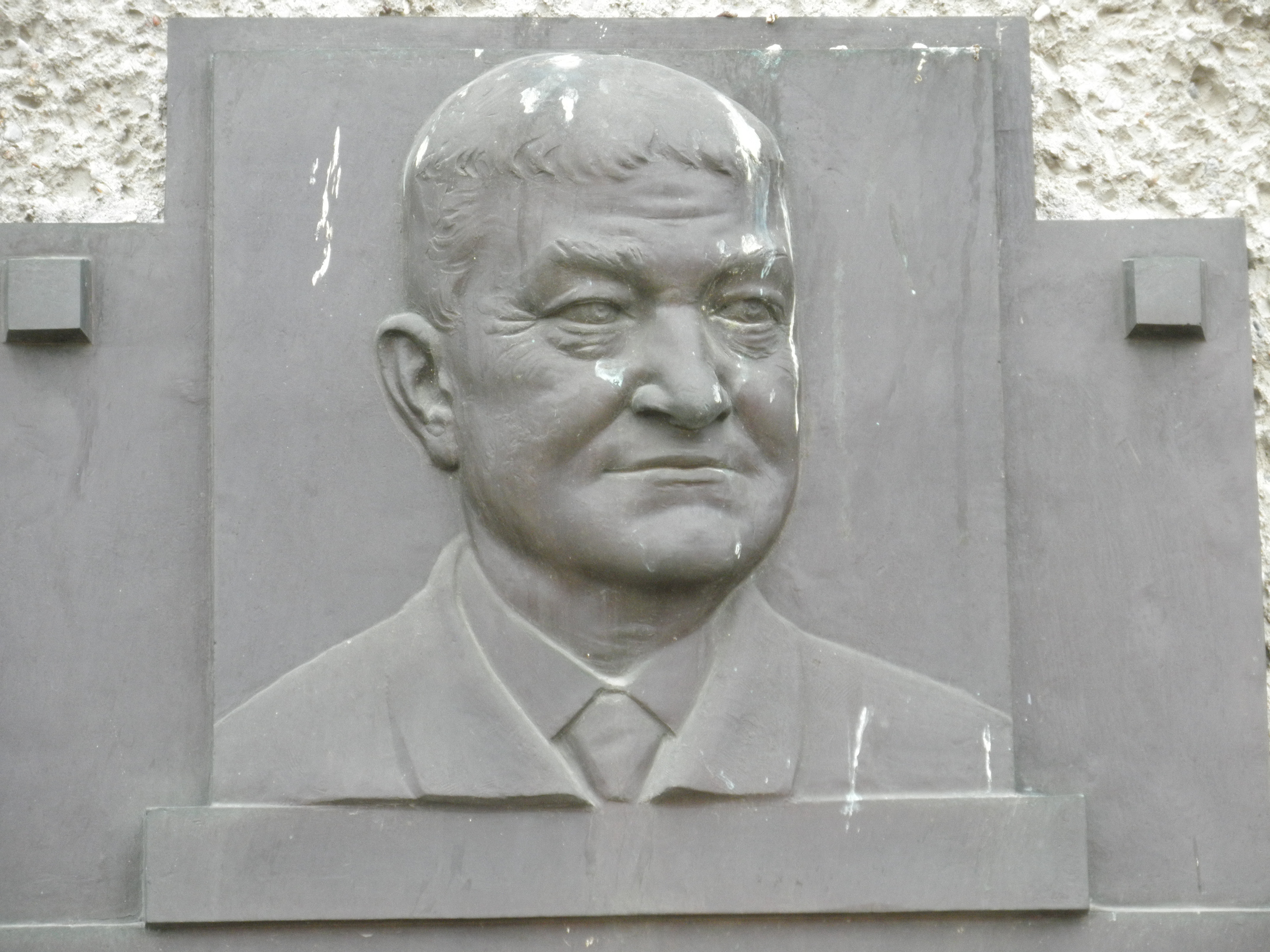 Photo of detail of plaque to Josef Vysloužil in Příkazy 19 was made by Julius Pelikán in 1929.